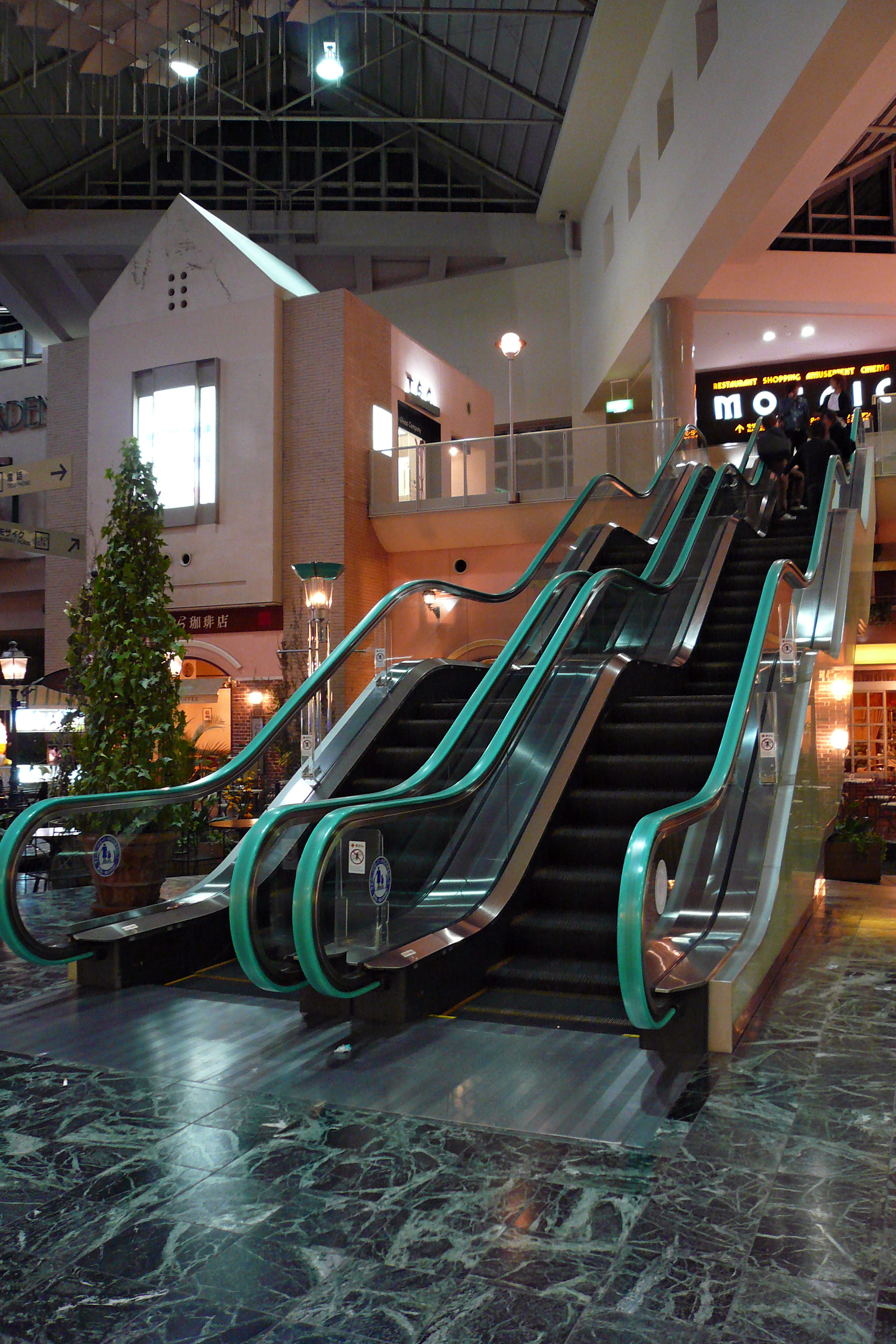 Canal Garden, Kobe, Hyogo prefecture, Japan